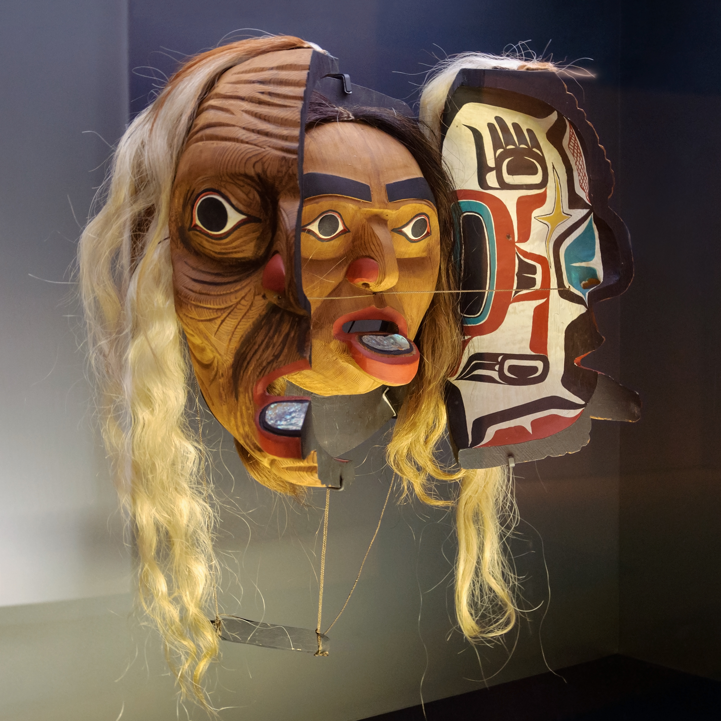 Kwakwaka'wakw transformation maskPeabody Museum of Archaeology and Ethnology, Harvard University in Cambridge, Massachusetts, USA.Presented during the exhibition La Fabrique des images (The Making of images) - Musée du quai Branly, Paris (February 16, 2010 - July 17, 2011)